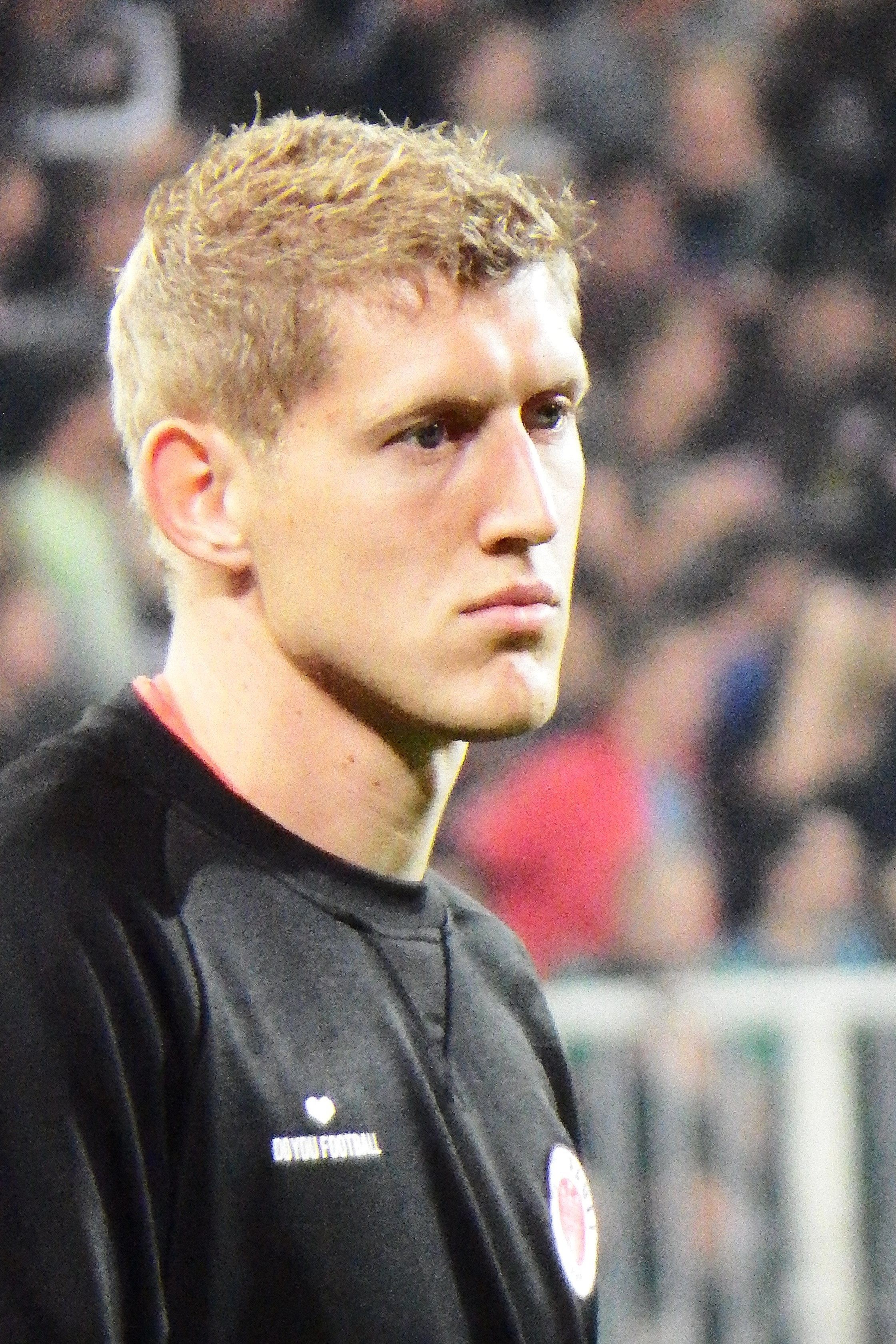 Kevin Schindler as Player of FC St.Pauli